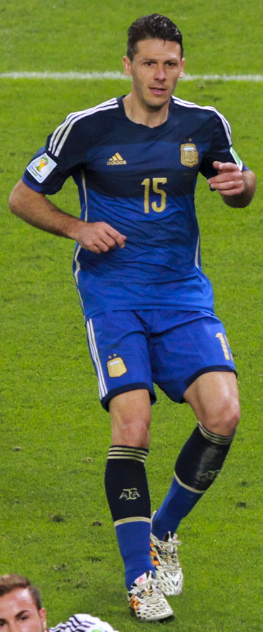 Götze scores decisive extra time strike, earns Germany fourth World Cup title at the FIFA World Cup 2014.